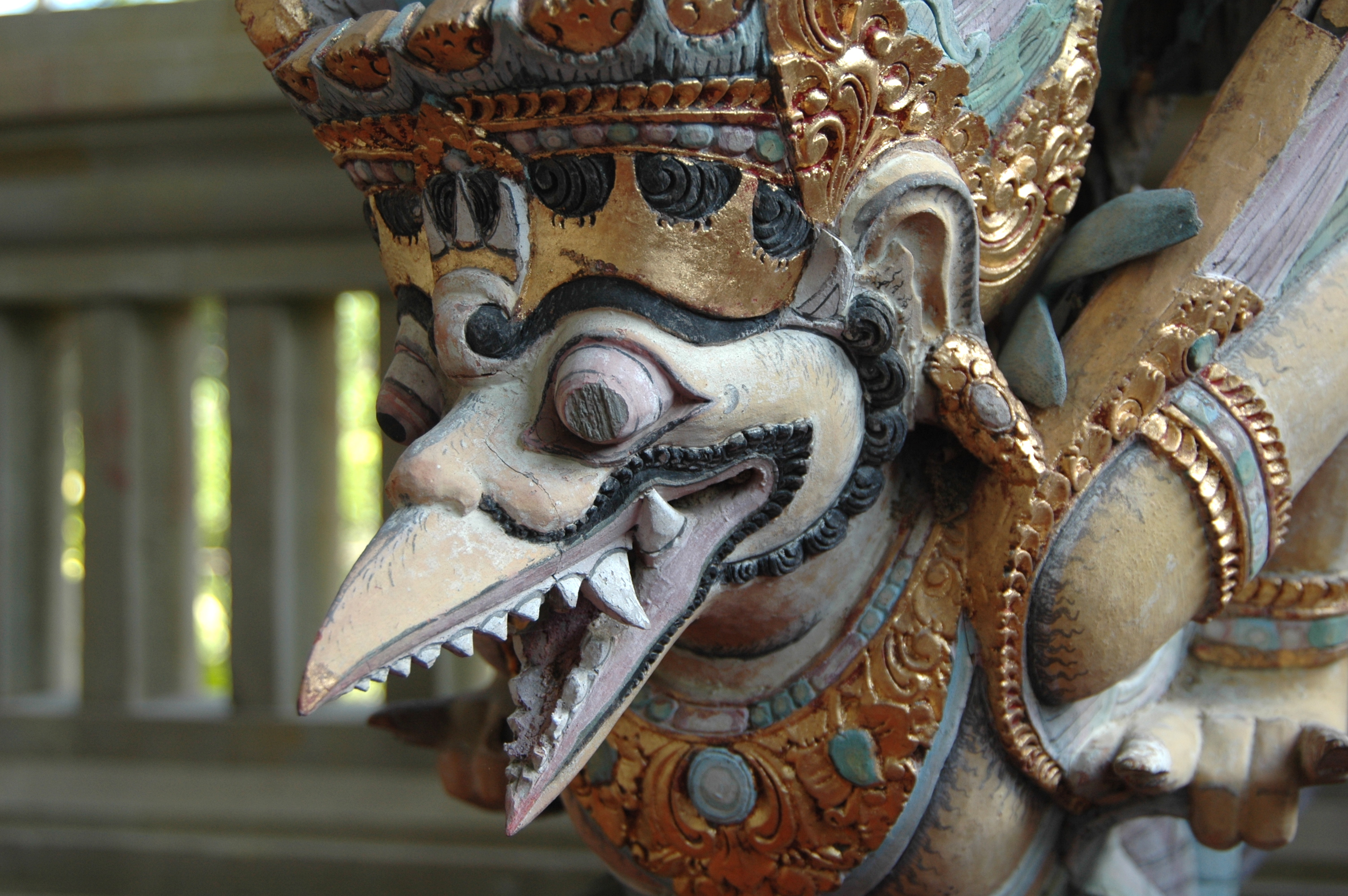 Woodcarving of Garuda in Ubud, Bali, IndonesiaBird-God Woodcarving